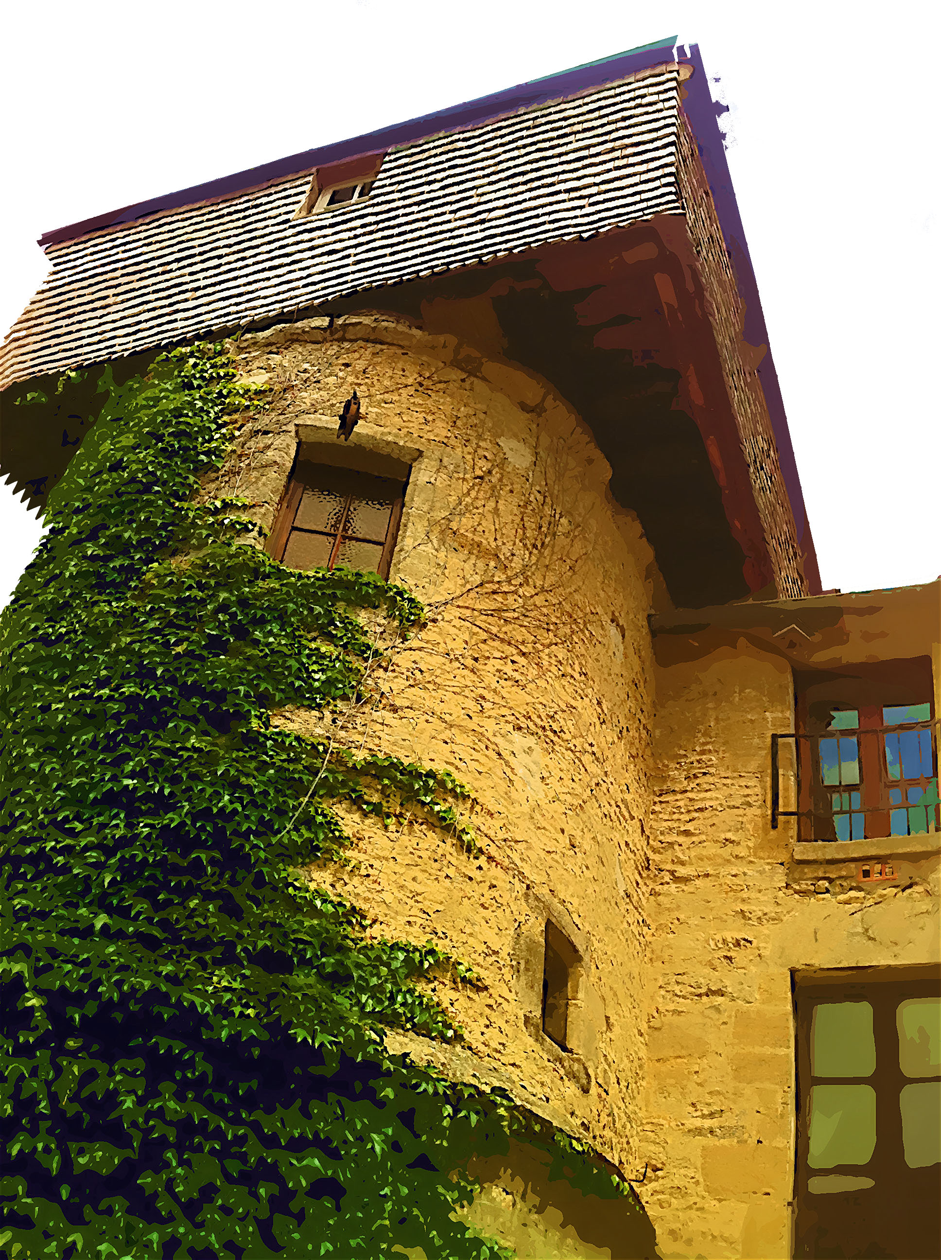 tower ecouche